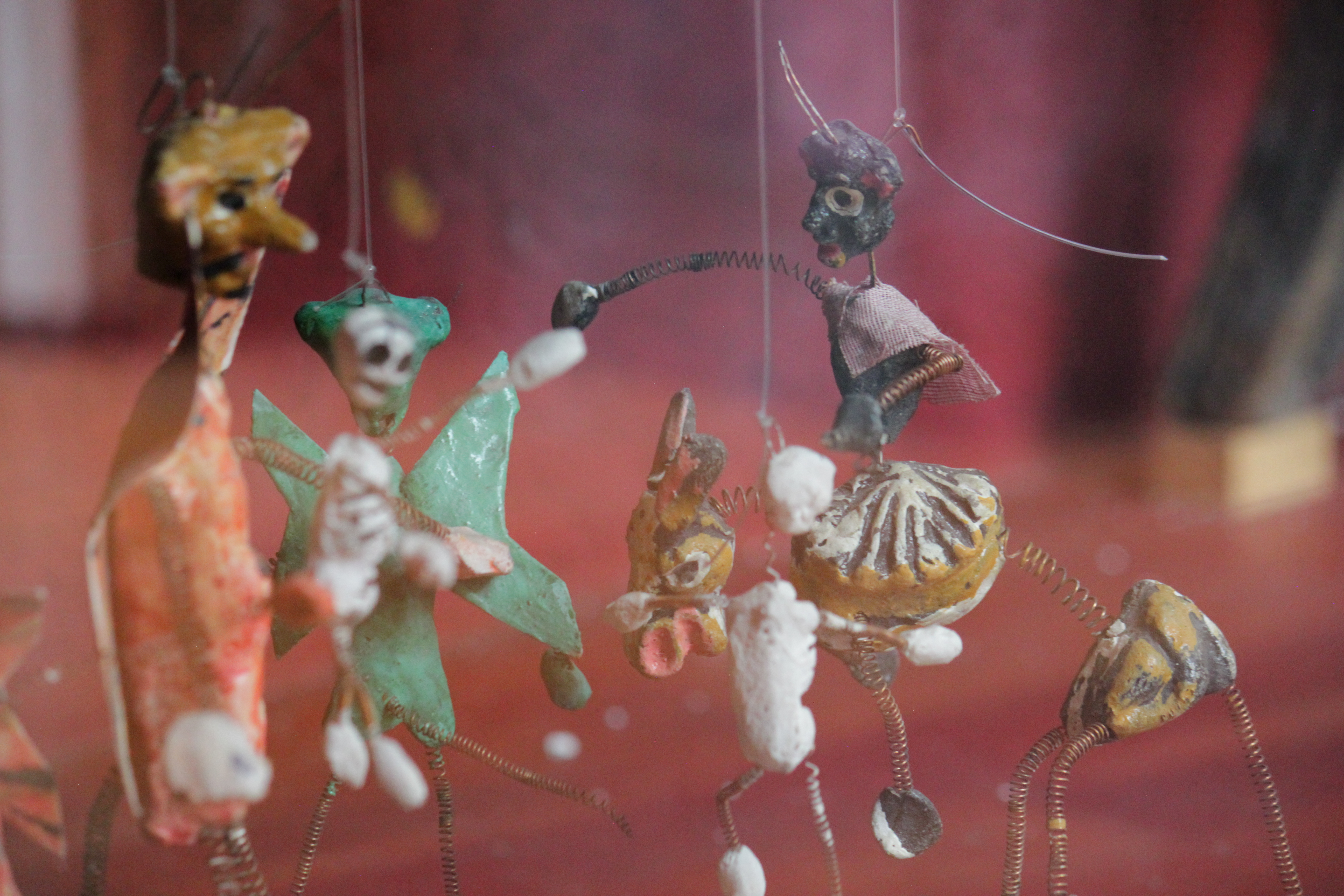 Miniature puppets, located in The Museum "La Casa del Poeta Ramón López Velarde" in Colonia Roma, Mexico City.